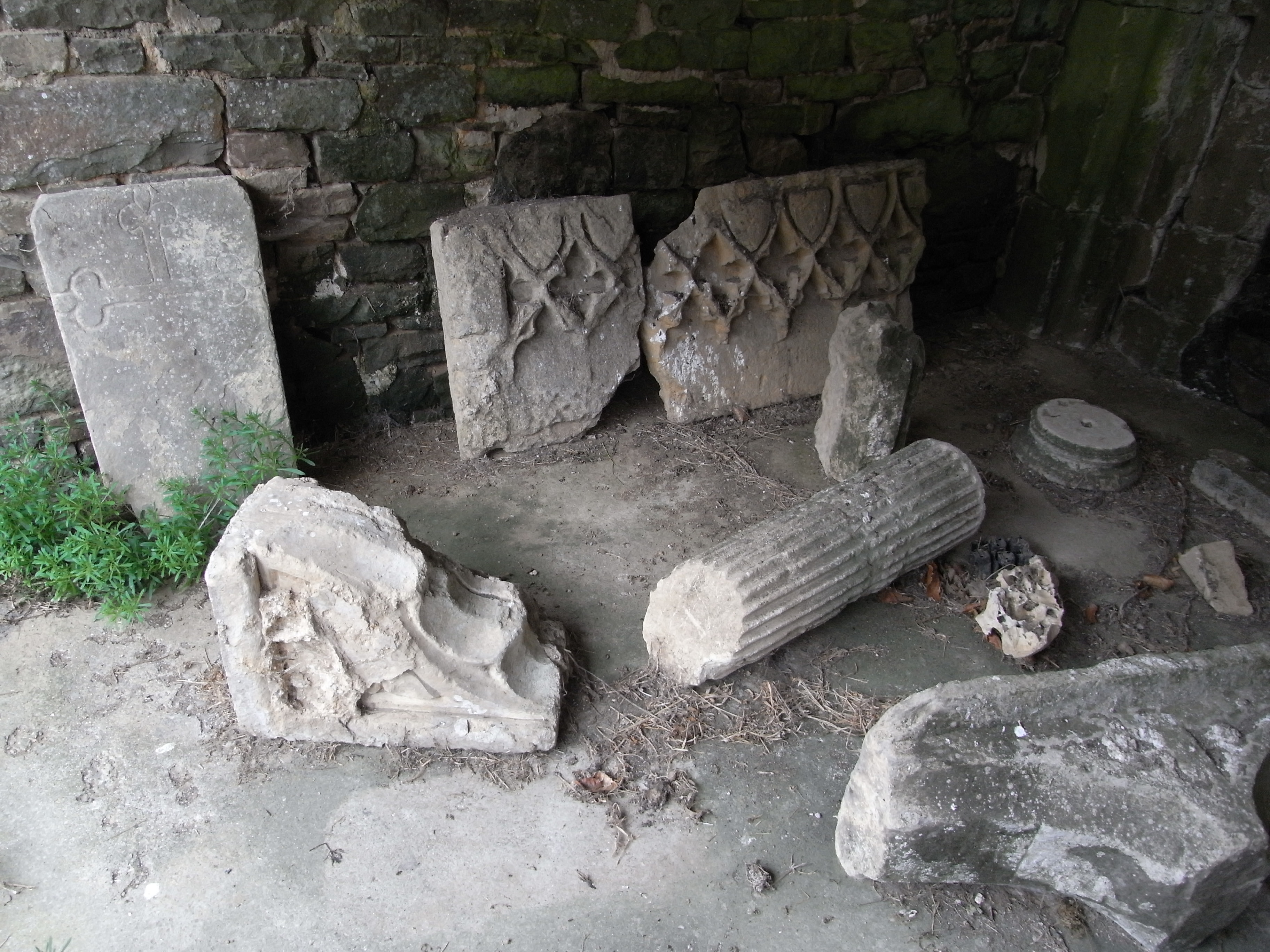 Unearthed fragments of architectural decoration belonging to the madiaeval Umberleigh Chapel or adjacent mansion. The length of stone sculpted with gothic niches enclosing shields may have been the original base of the chest tomb on top of which lay the effigies of the knight and his lady removed to Atherington Church in about 1800 (Coulter, p.12)